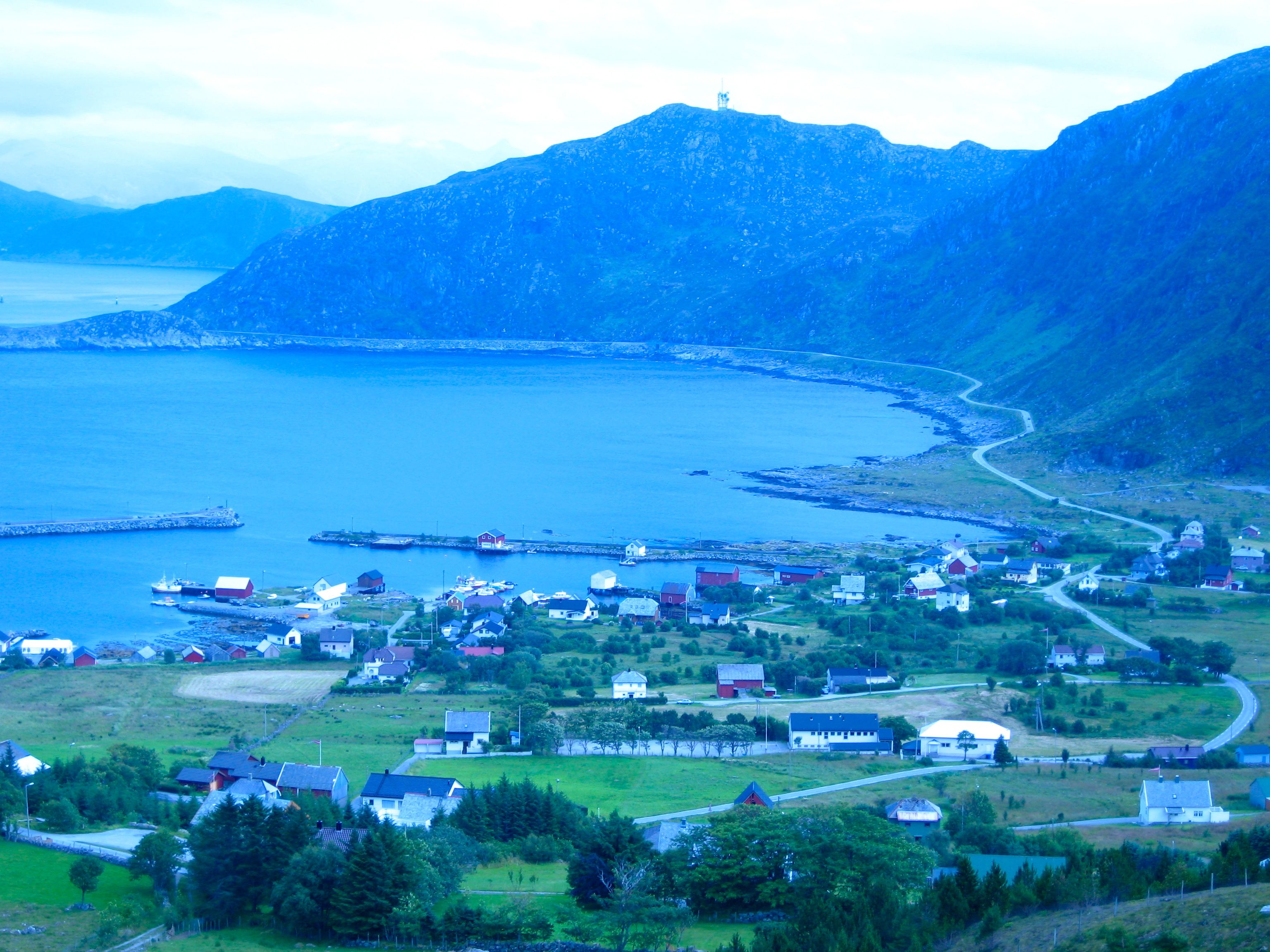 Kvalsvik viewed from Barmen